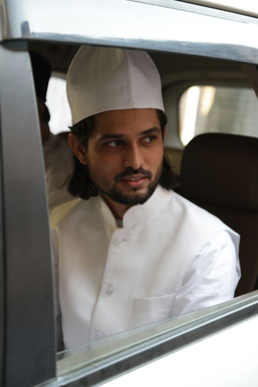 at an annual occasion